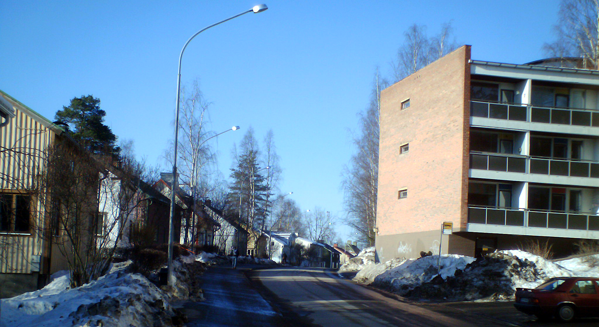 Niinivaara, Joensuu, Finland